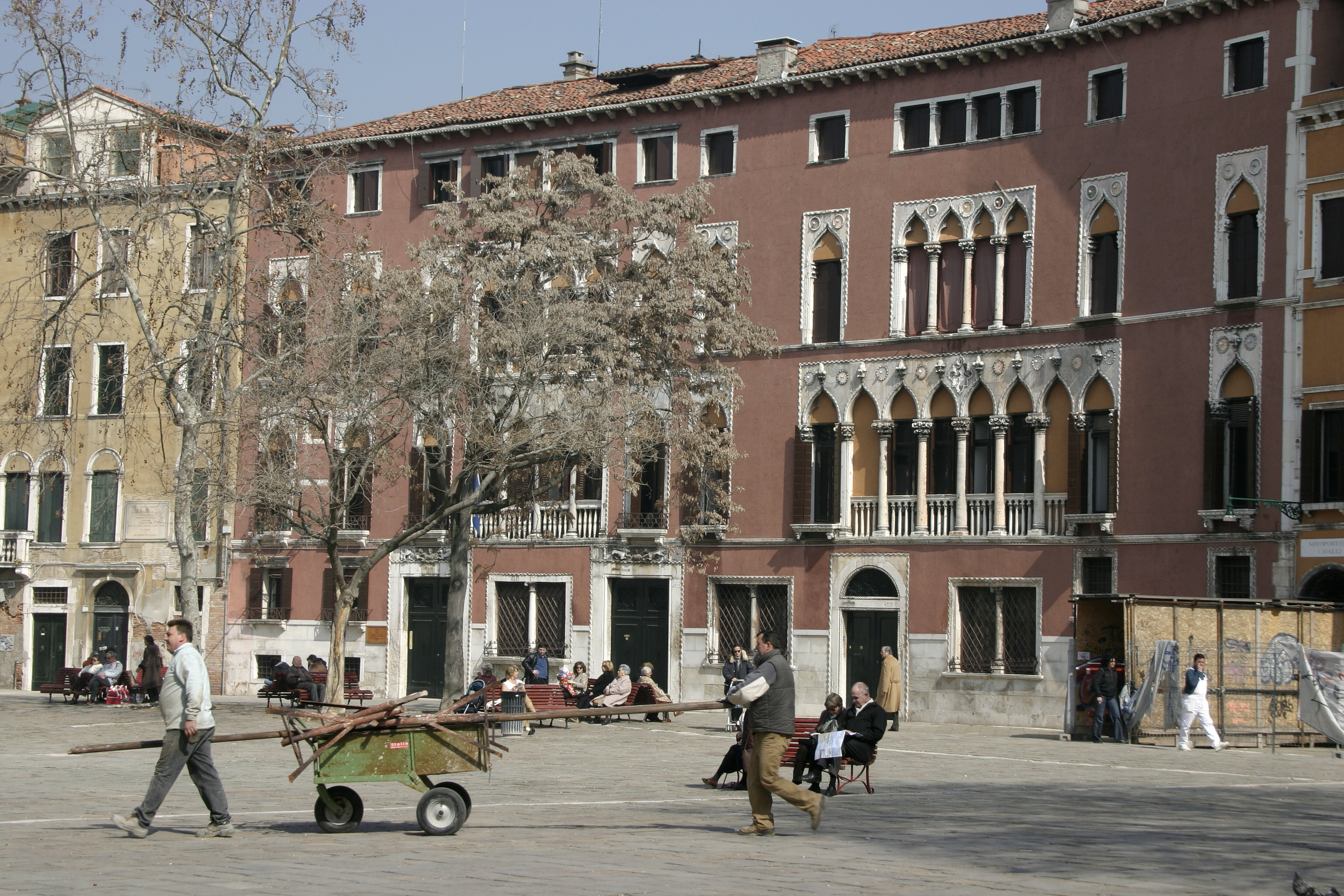 Venice - Soranzo Palace in the Campo S. Polo